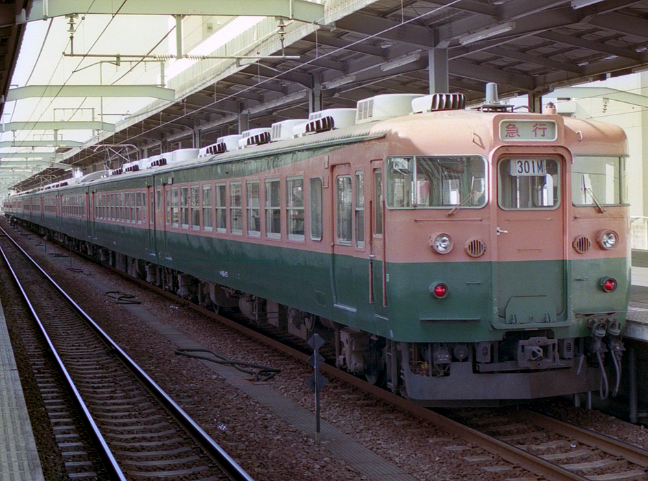 JNR 165 series EMU on a Tokai express service at Shizuoka Station